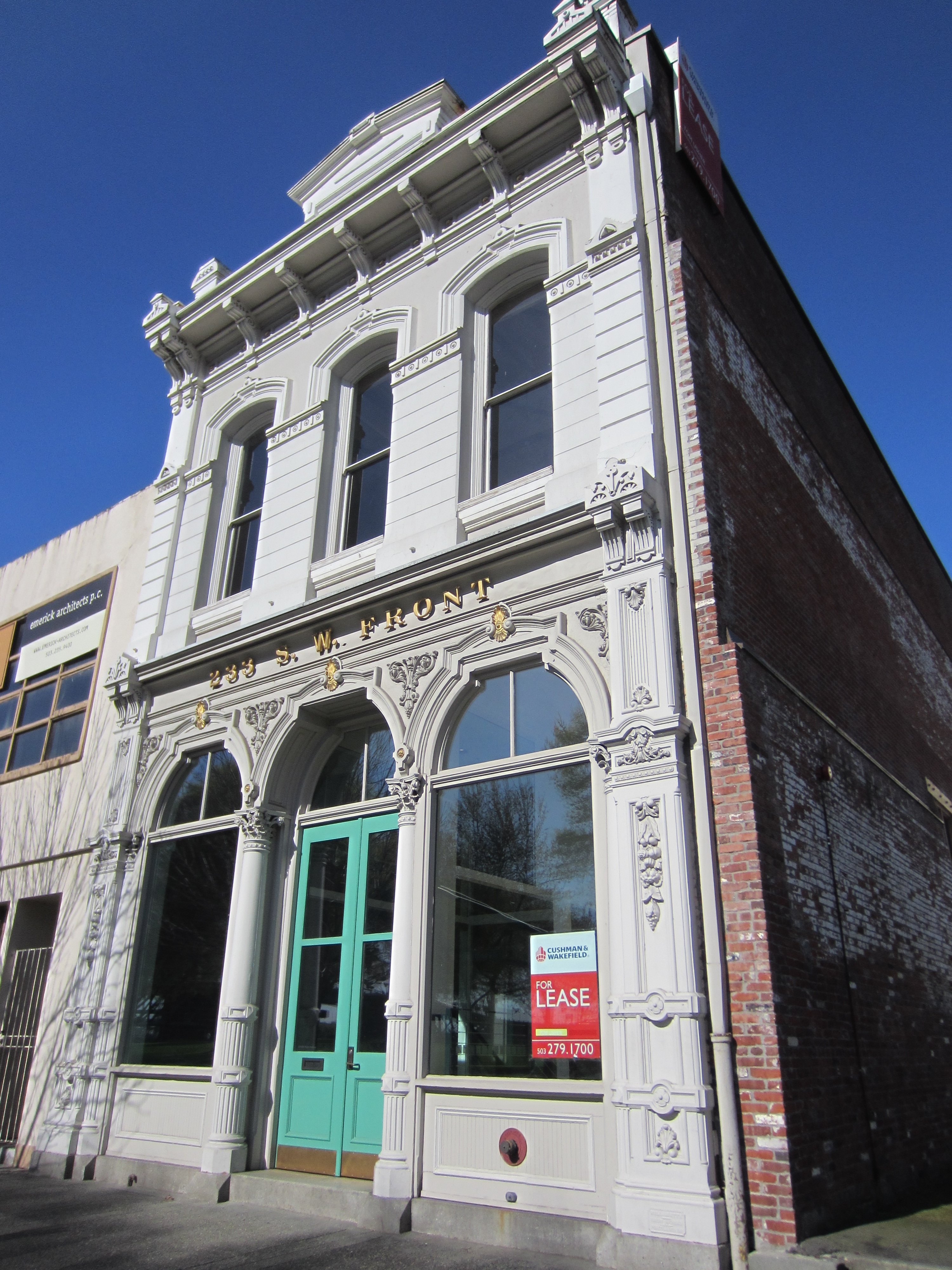 The Fechheimer & White Building, at 233 SW Naito Parkway (formerly Front Avenue), in Portland, Oregon, was built in 1885.